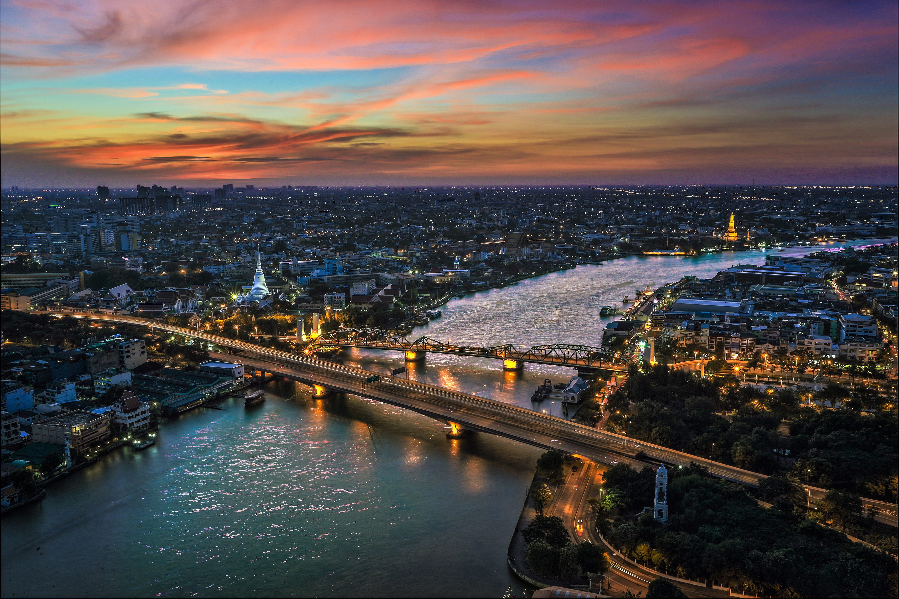 Wat Prayurawongsawat Worawihan, Wat Kanlaya Subdistrict, Thon Buri District, BangkokDepicted place: Wat Prayurawongsawat Worawihan